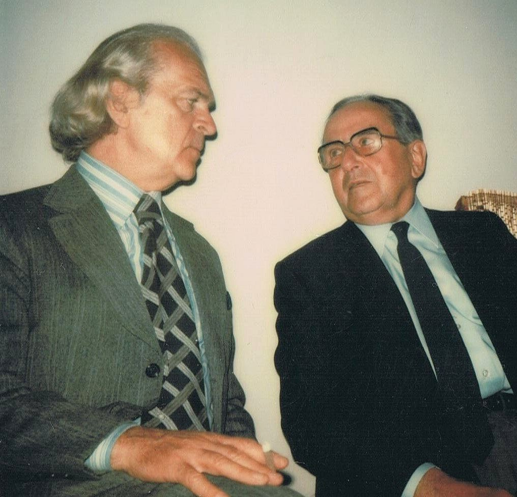 Dr Julian Godlewski, Polish lawyer & philanthropist and Witold Małcużyński (left), Polish pianist (1976)